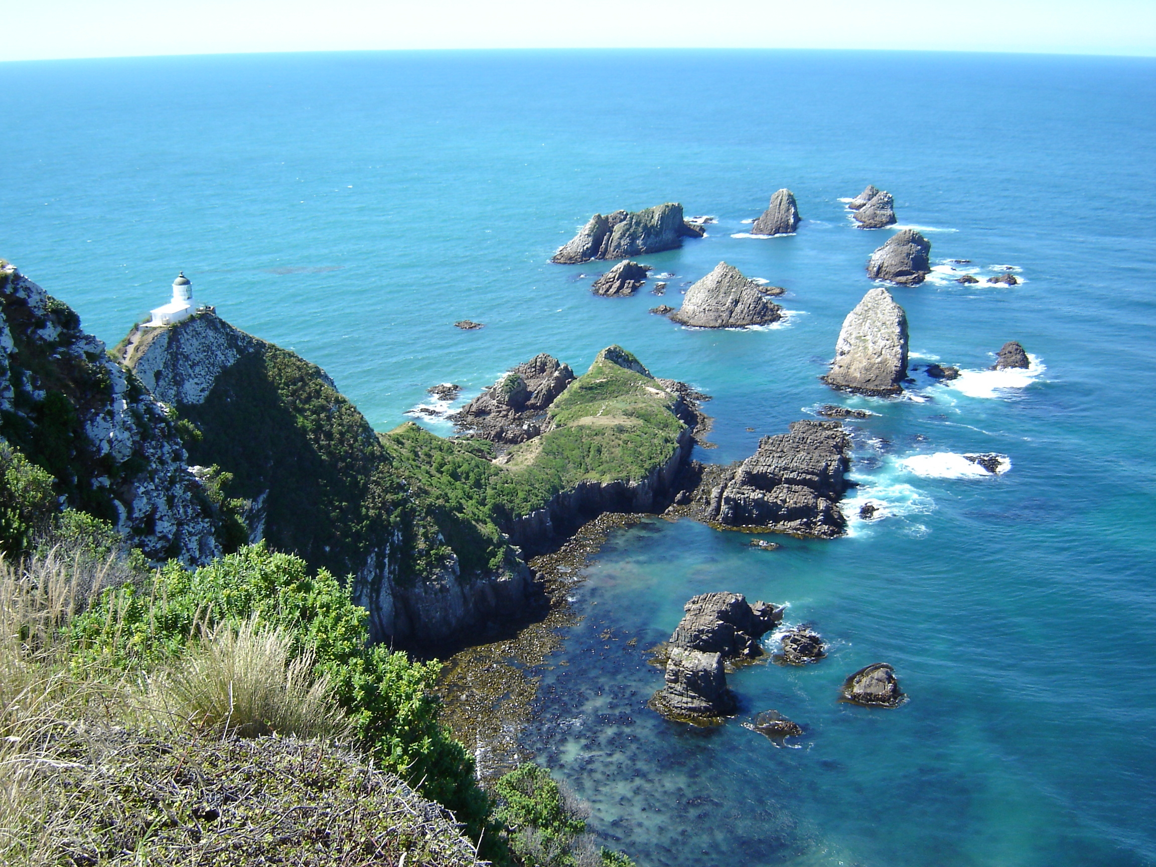 Lighthouse (left) overlooking Nugget Point, New Zealand.